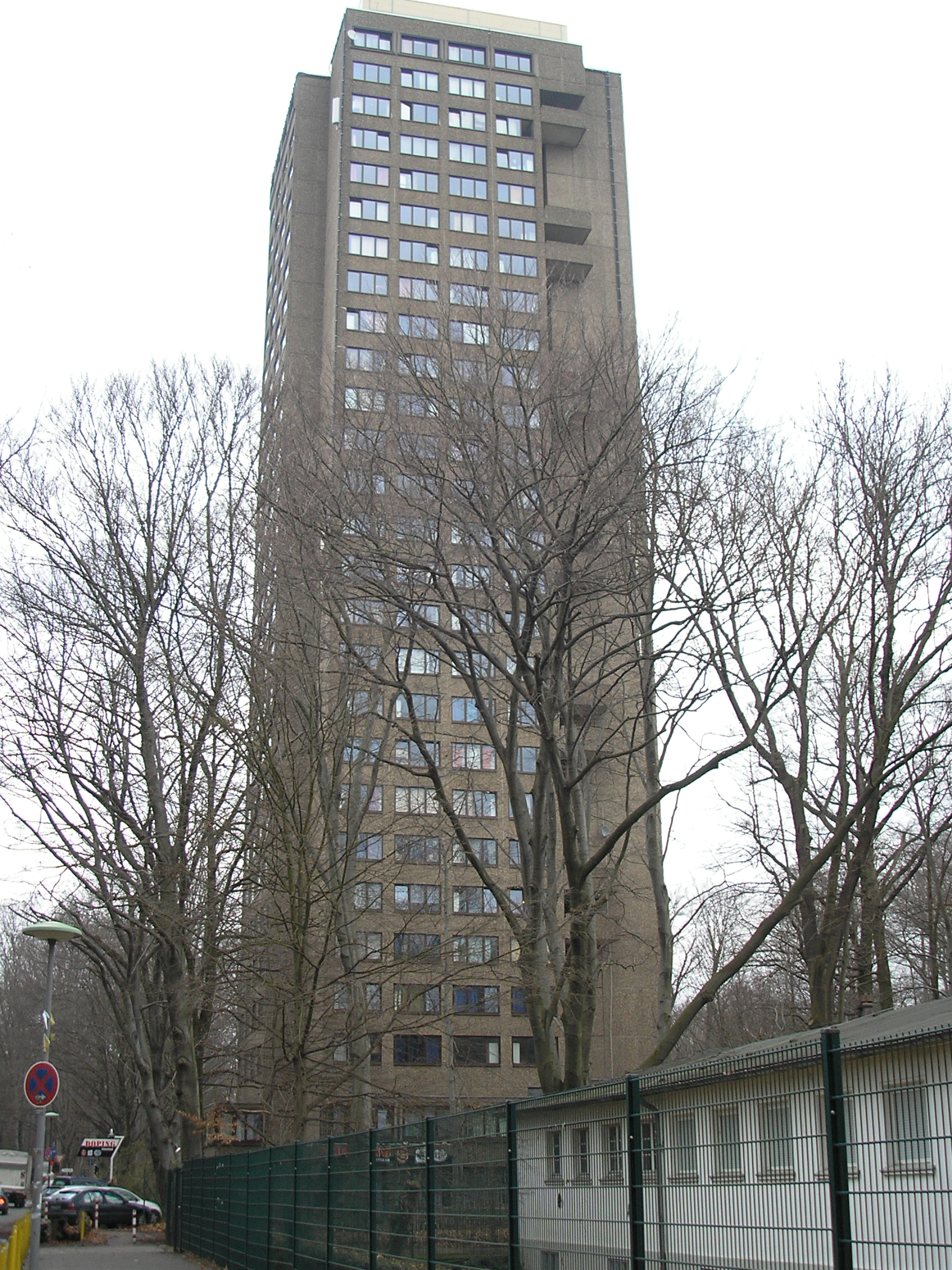 German Sport University Cologne